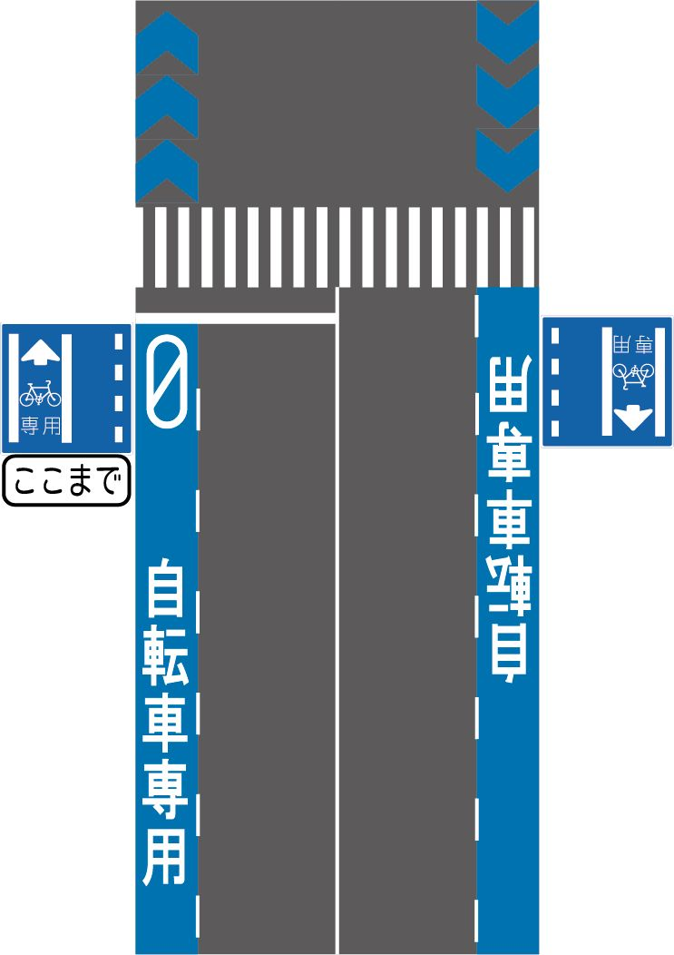 Contains Blue colored Charinko Only Lane in Japan